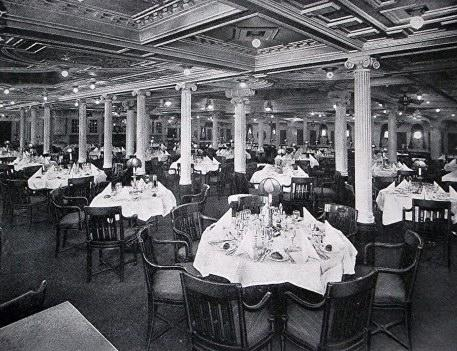 First Class Dining Room of the SS Kronprinzessin Cecilie (length view)